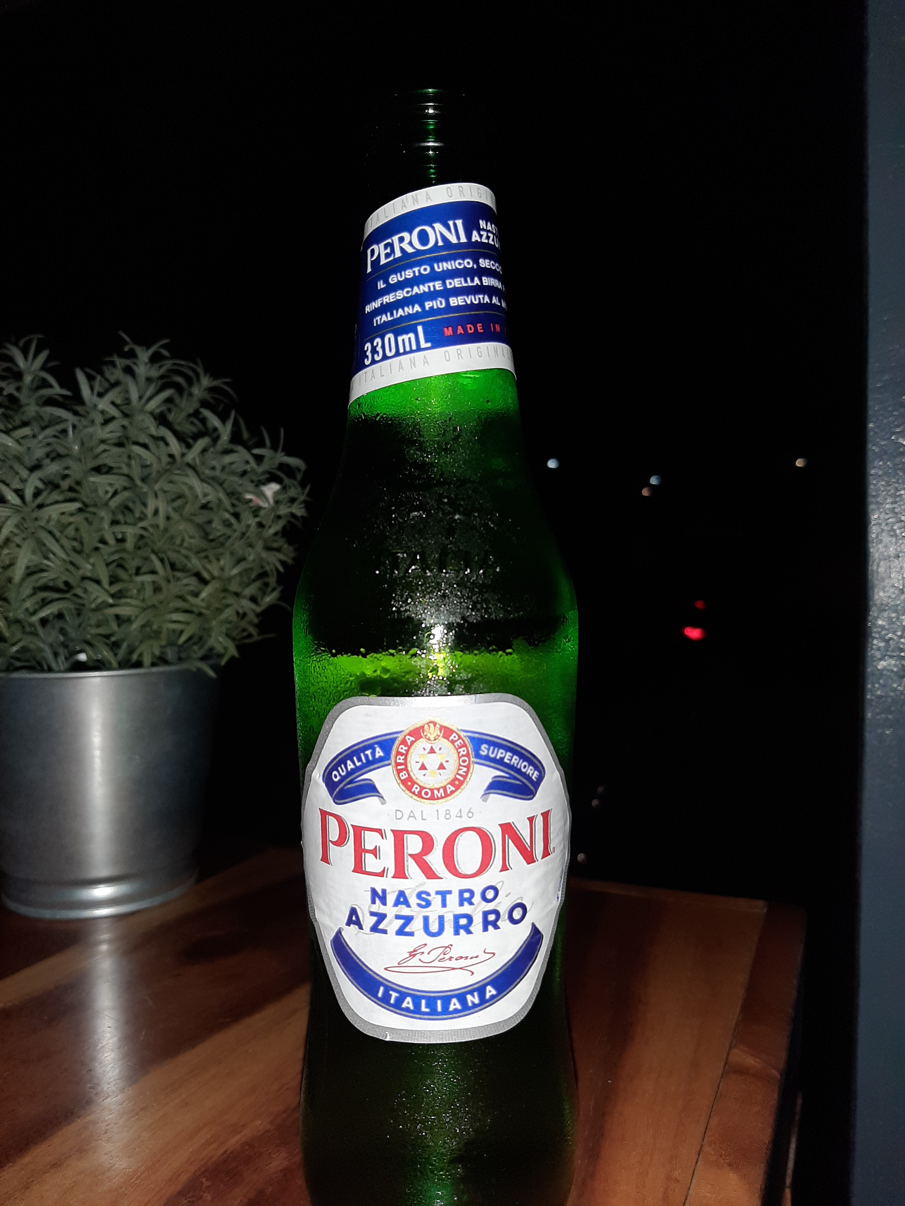 Peroni Nastro Azzurro. 330mL Bottle